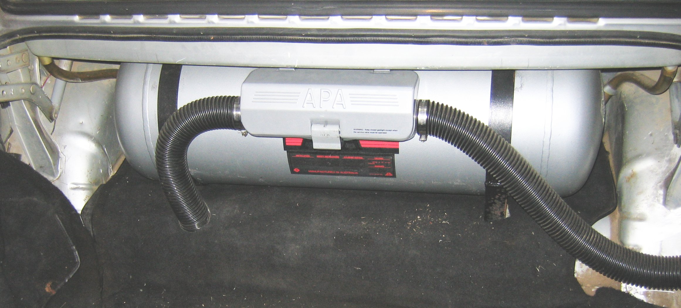 Autogas tank in the boot (trunk) of Volvo 264 Sedan